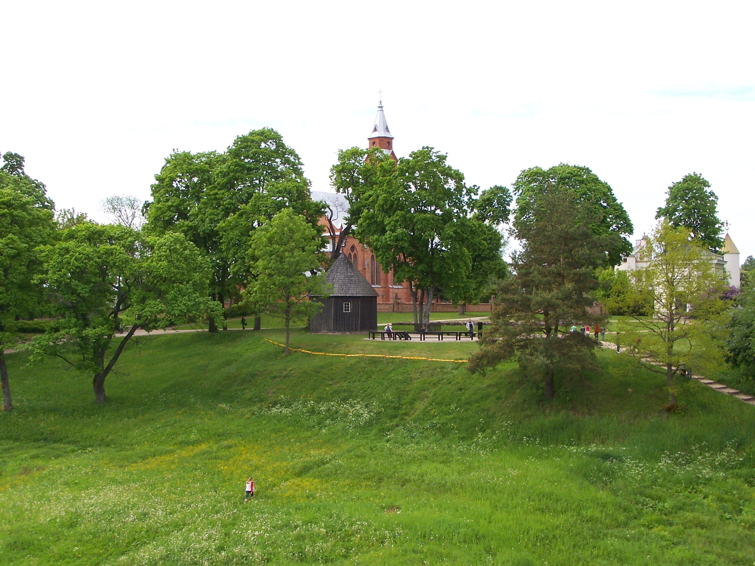 Old hillfort mounds and church in Kernavė (Lithuania).